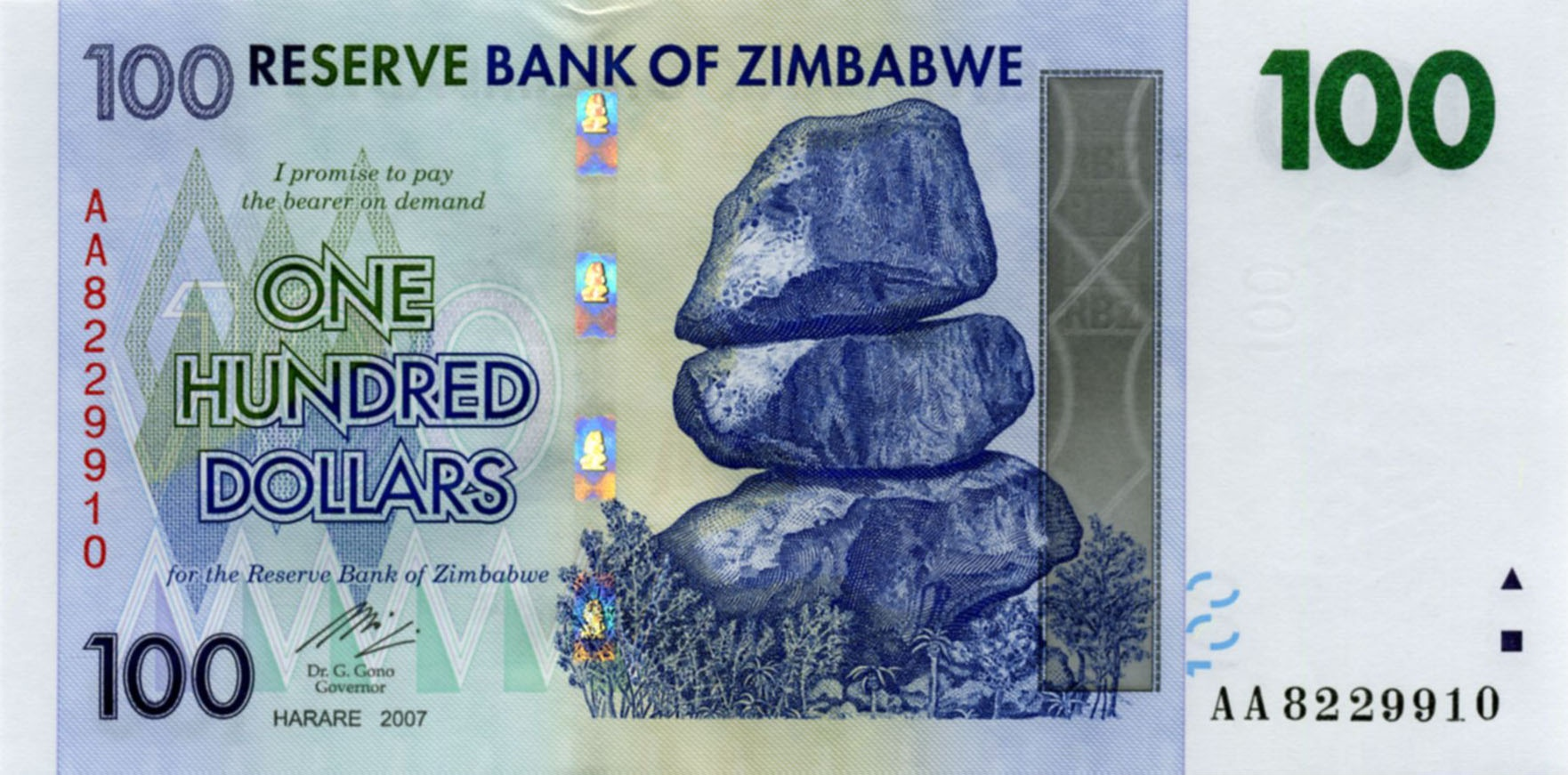 This is the obverse of a paper banknote of the Zimbabwe Dollar. Use of this image in article Banknotes of Zimbabwe is fair use because: It adds significance to the article, as the article is specifically about these banknotes; The image of this banknote was avalible from a non-commercial site in the past; There is no prospect of the copyright holders earning revenue from the image, as it is of very little value.